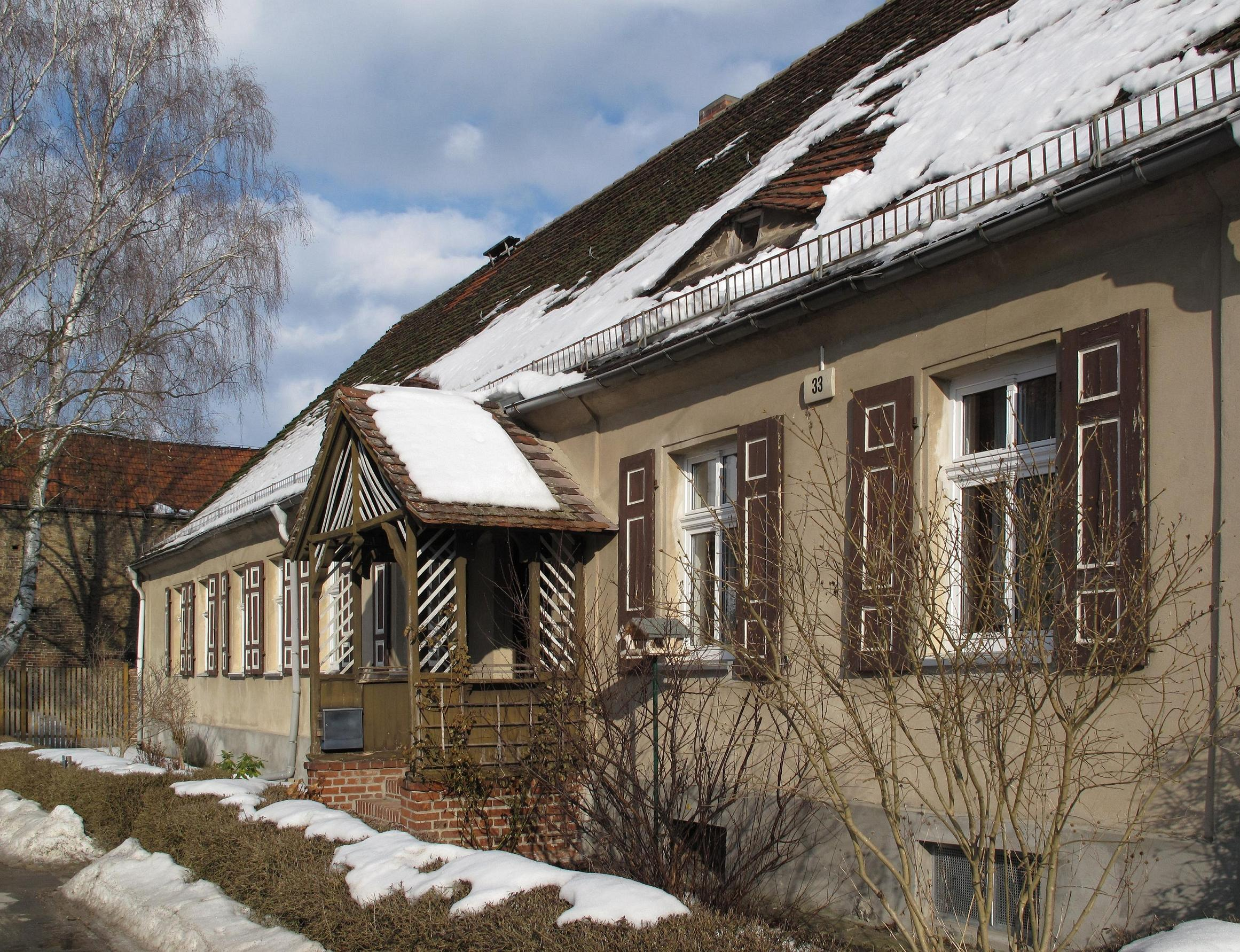 Listed rectory in Gröben. Built in 1720, extensions built in 1879 and 1888. Gröben is a part of Ludwigsfelde in the district Teltow-Fläming, state Brandenburg, Germany.